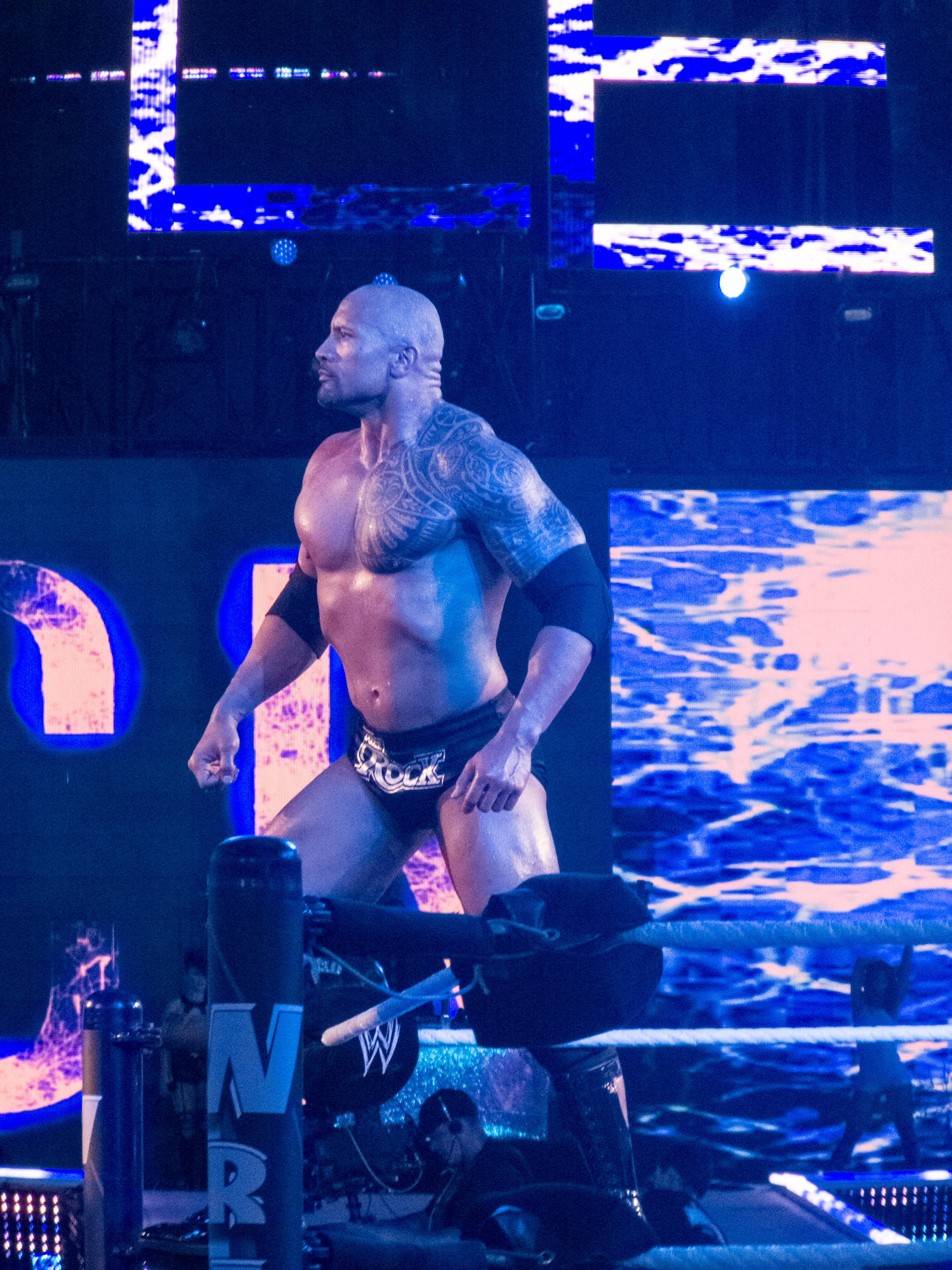 WWE Wrestlemania 28 - The Rock vs John Cena